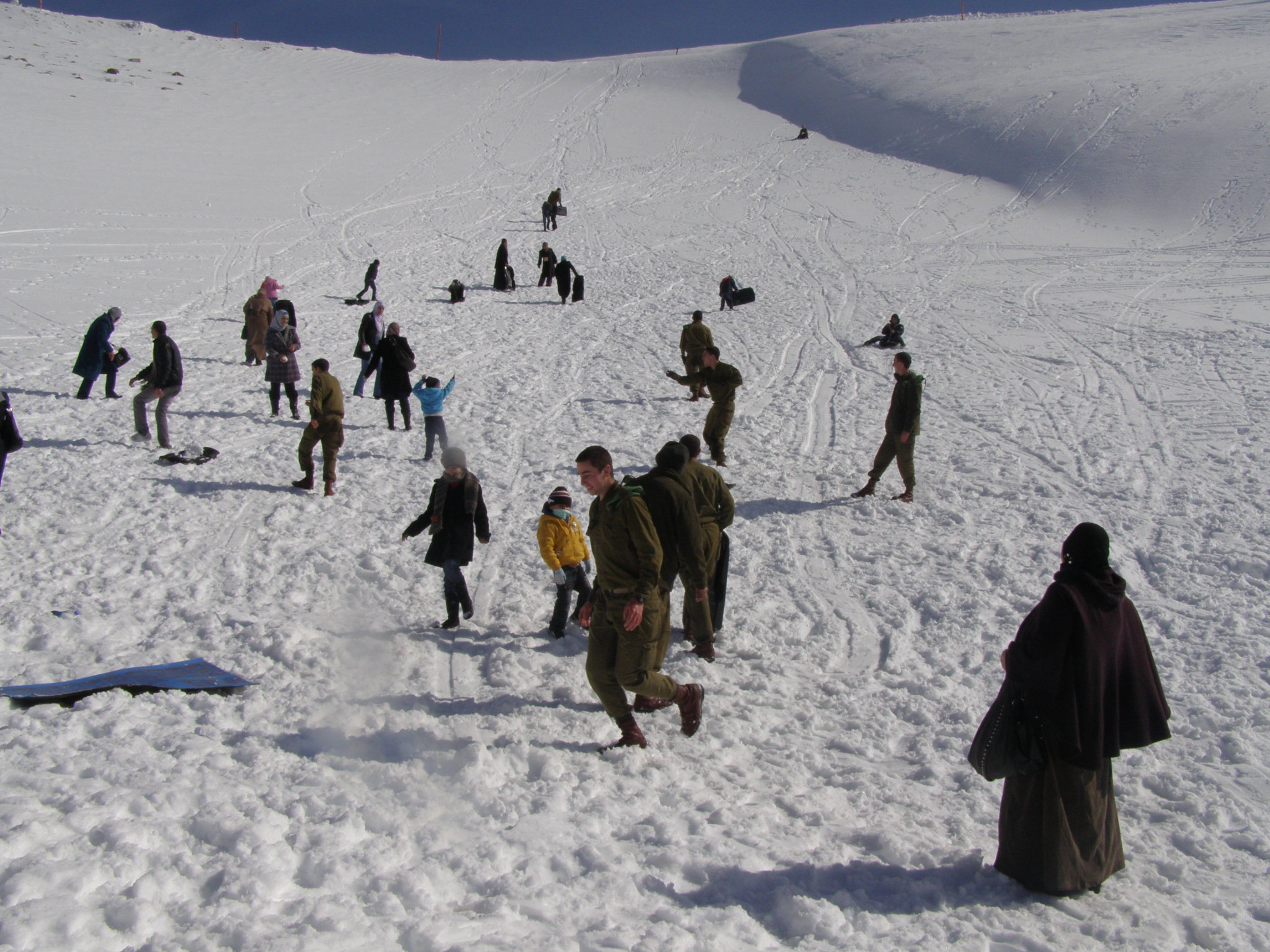 On March 14th, 2011, Palestinian children diagnosed with cancer visited Israel's only ski resort located in Mt. Hermon, northern Israel. The children, accompanied by parents and family, enjoyed the snow and slopes along with IDF soldiers from the Alpine Unit. Their trip to the Hermon was made possible by Civil Administration, the Israeli body responsible for administering and coordinating civilian and humanitarian needs in the West Bank. The children are undergoing treatment at the Augusta Victoria hospital in Jerusalem. The Civil Administration's Health Coordinator, Dalia Bassa and the Commander of the Alpine unit jointly organized the trip. The Alpine Unit is an elite unit of reserve soldiers who undergo intensive training particularly in the Mt. Hermon region. The unit carries out regional defense tactics, shooting while skiing at high speeds, snowmobiling, and riding Sno-Cats. For more photos of soldiers in the Alpine Unit